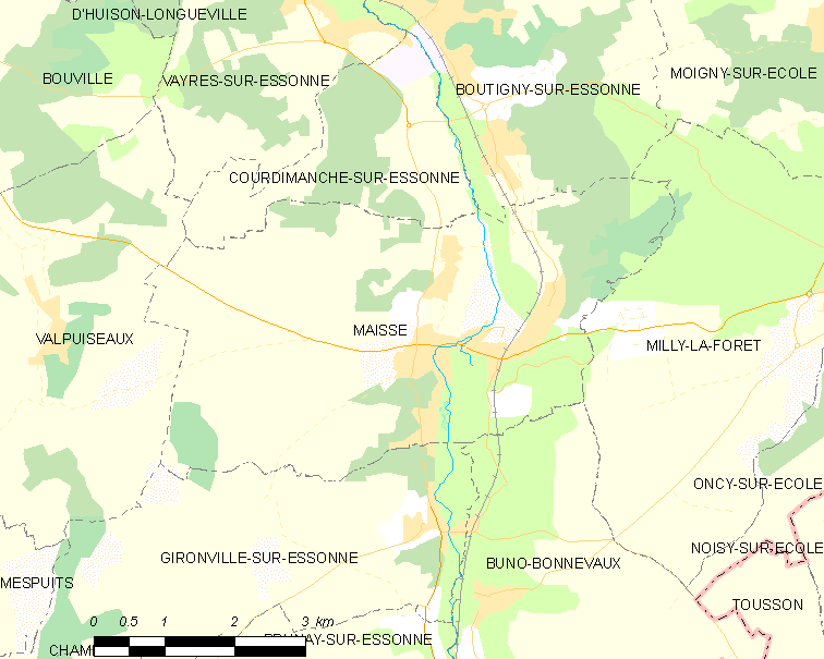 Map of French municipality Maisse